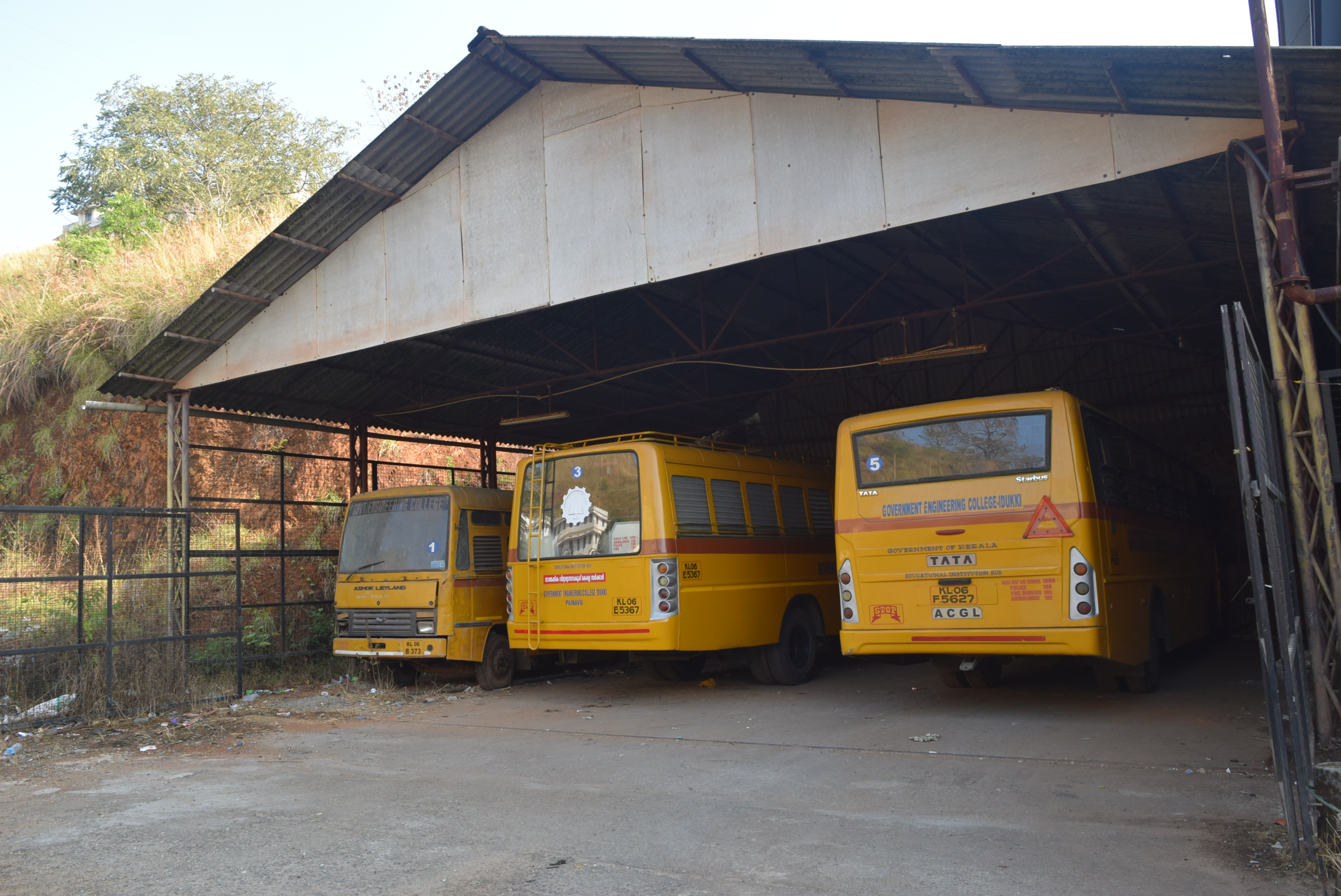 Govt Engineering College Idukki Campus